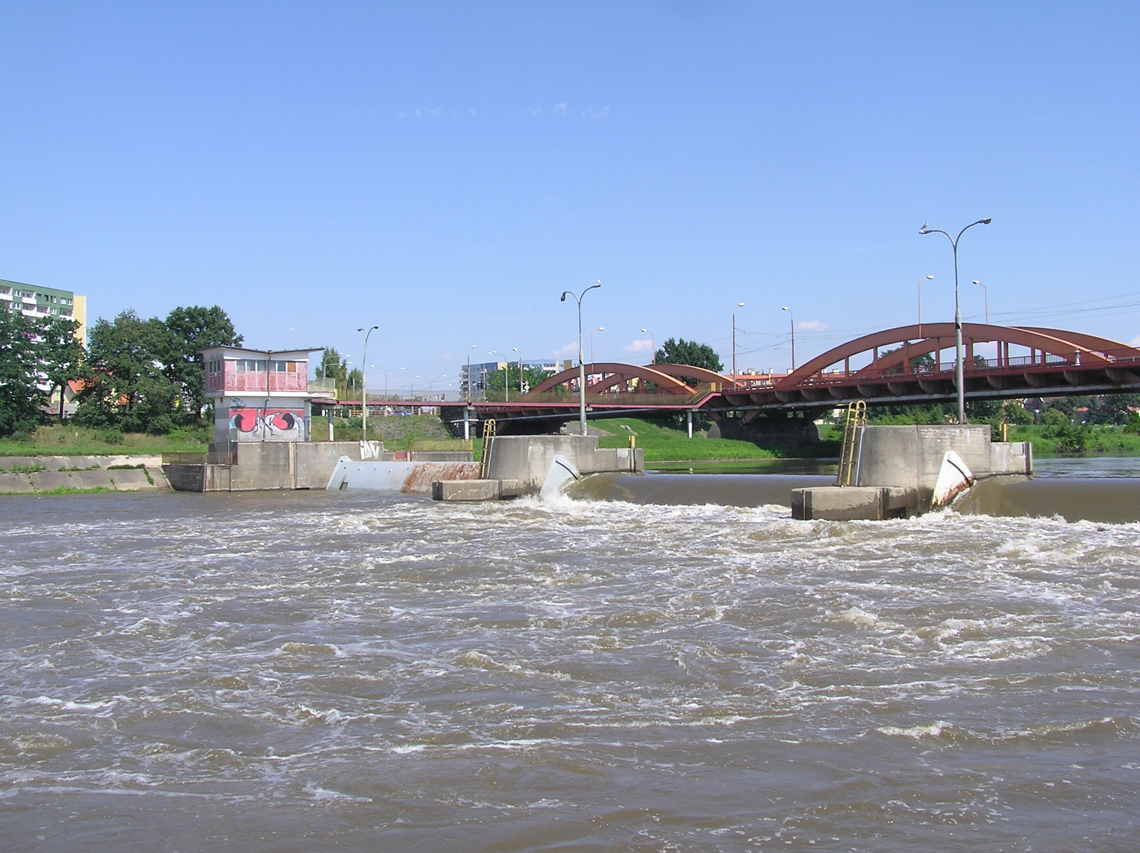 Wrocław, Oder River, Stara Odra, Różanka weir